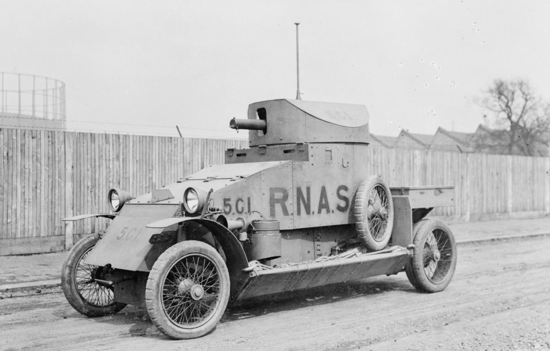 R.N.A.S standard Lanchester Armoured Car, Wormwood Scrubbs, 1915.